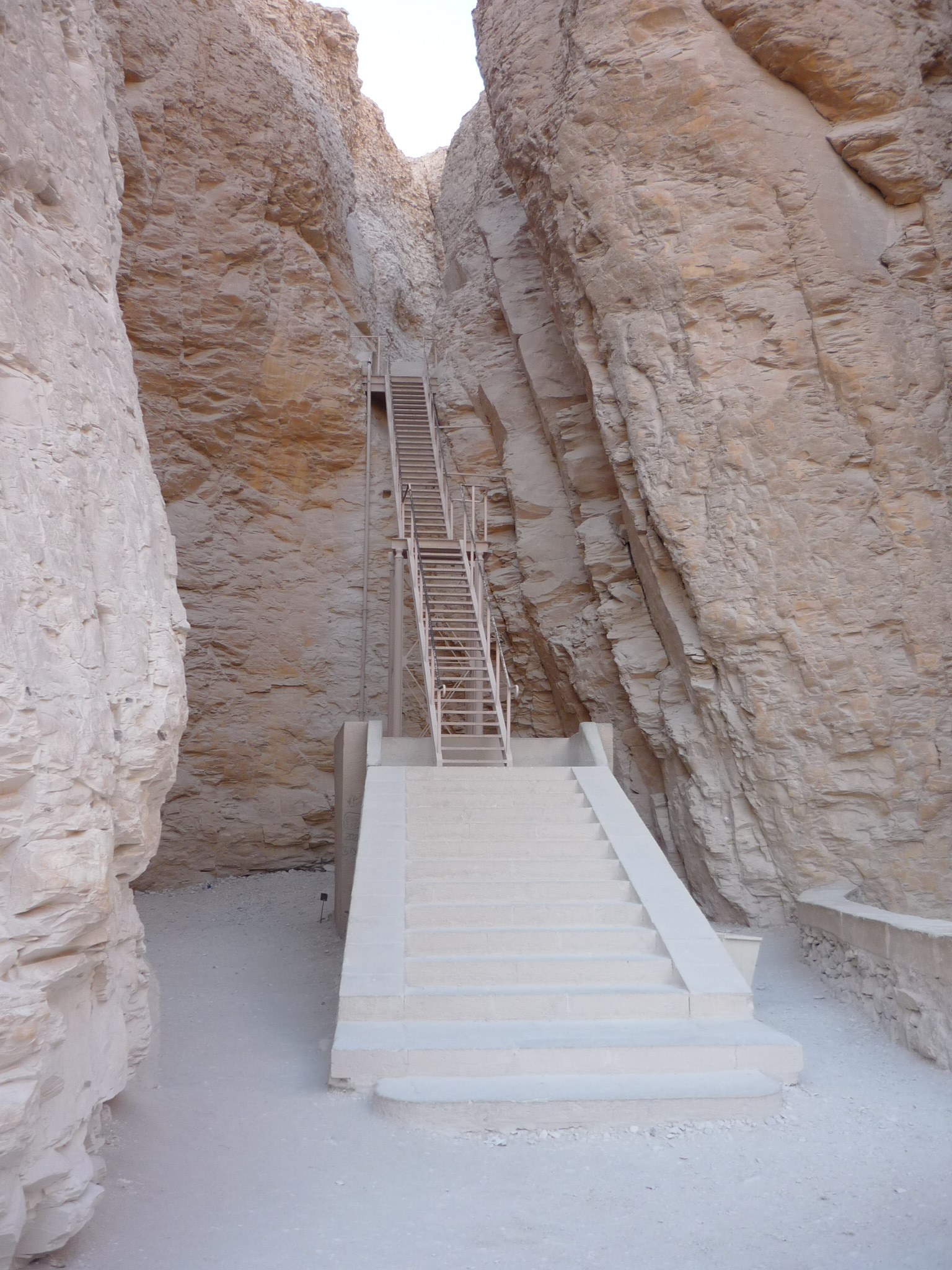 Thutmosis III tomb KV34 entrance, Valley of the Kings, Theban Necropolis, Egypt